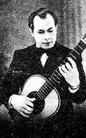 Ramón Sixto Ríos. Argentine folk musician. Author of "Merceditas", folk song (chamamé).